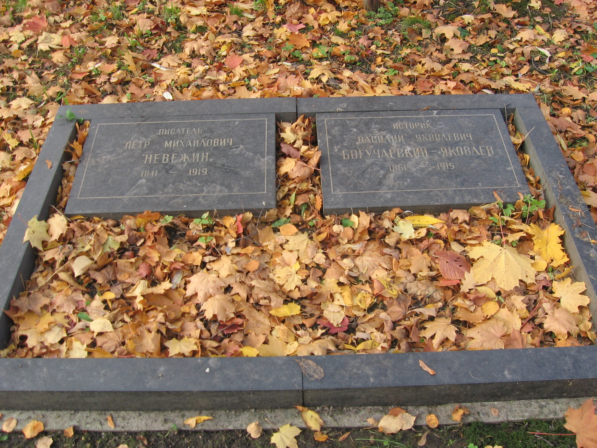 Grave of Basil Bogucharsky and Pyotr Nevezhin